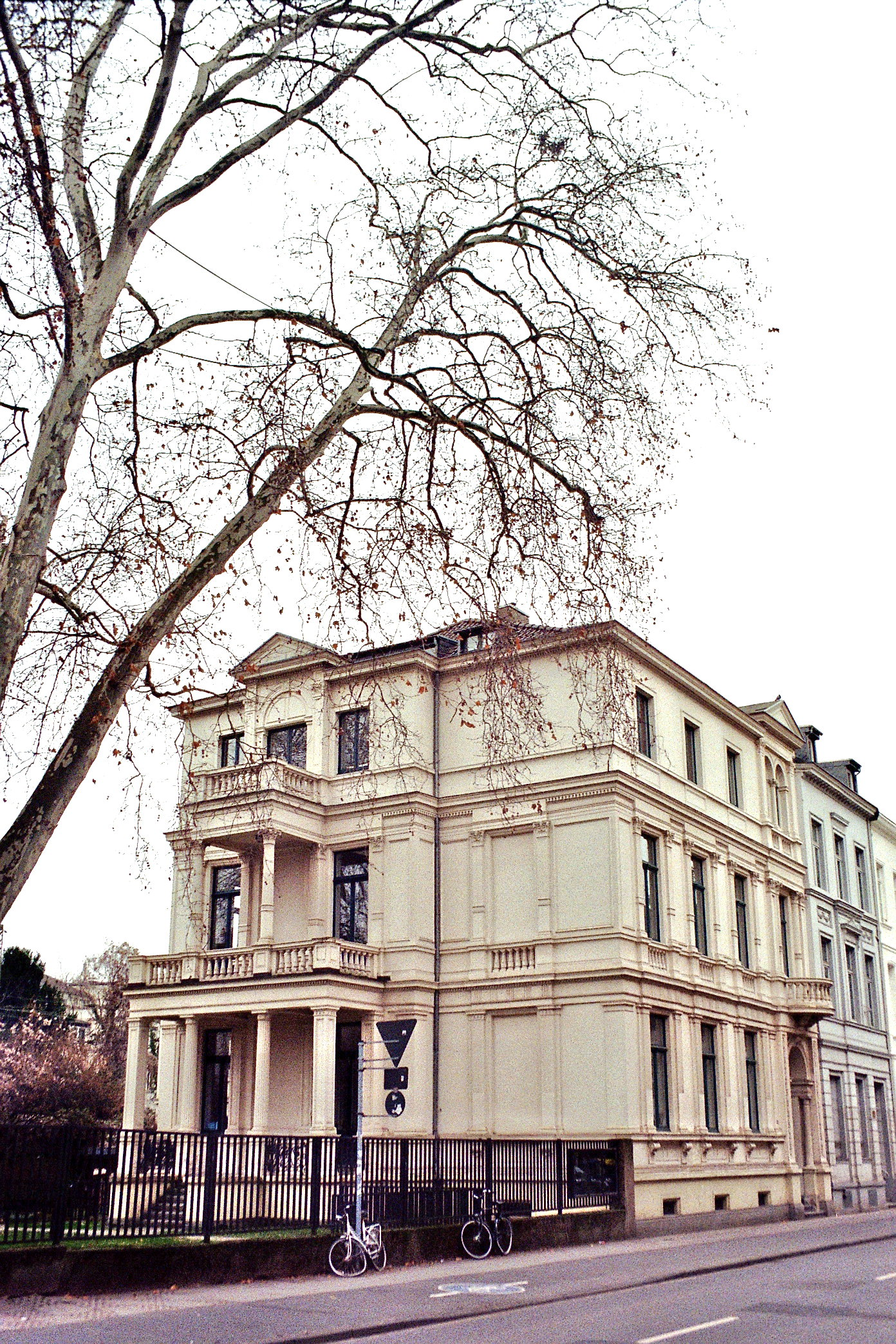 Former house of Corps Borussia Bonn in Bonn/Germany, Kaiserstrasse 52